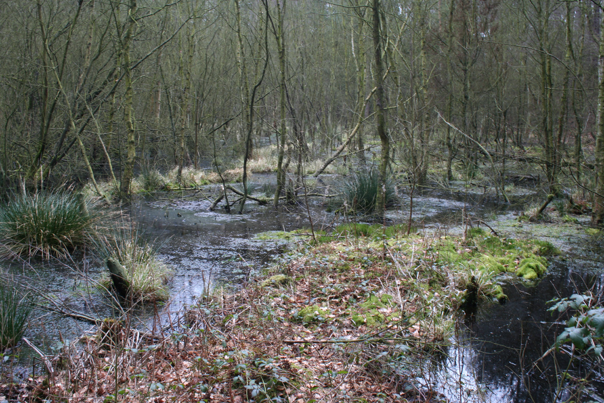 Wetland at Delamere Forest, near Hunger Hill (SJ 546 720)